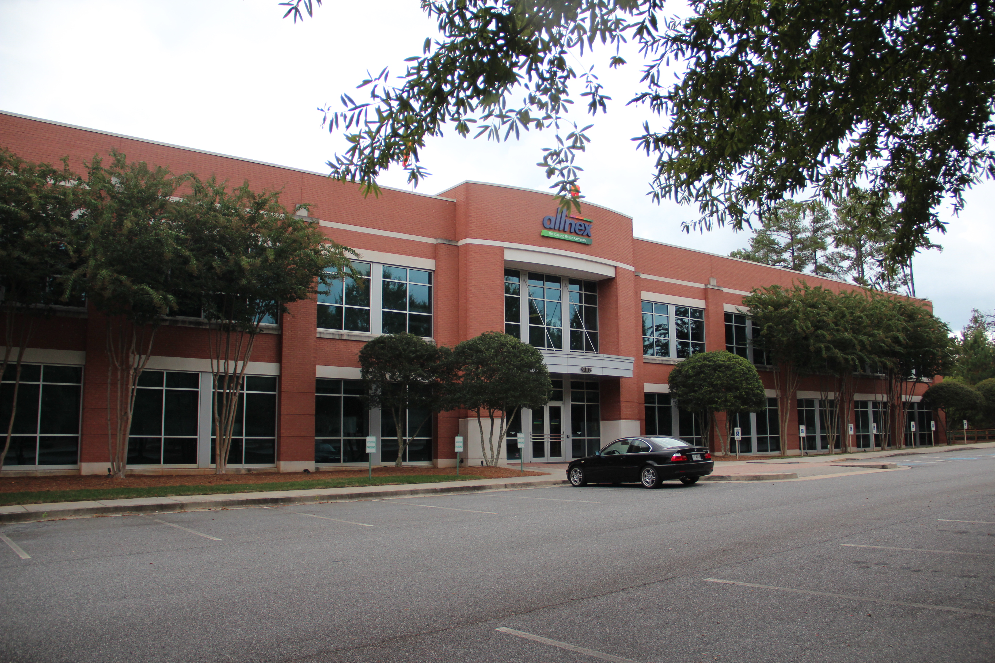 9005 Westside Pkwy, Alpharetta, GA